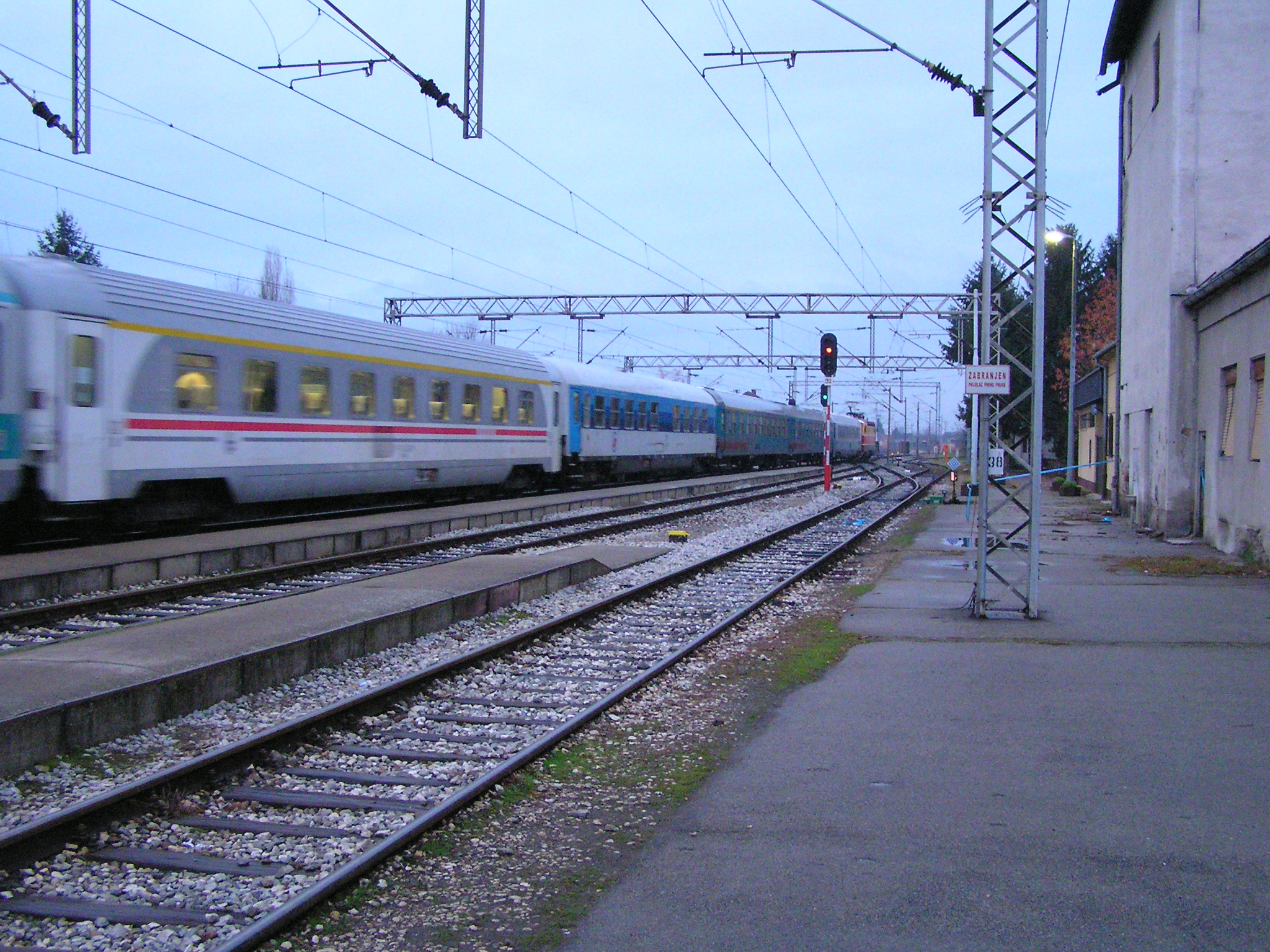 International intercity leaving Nova Gradiška Zagrebbound